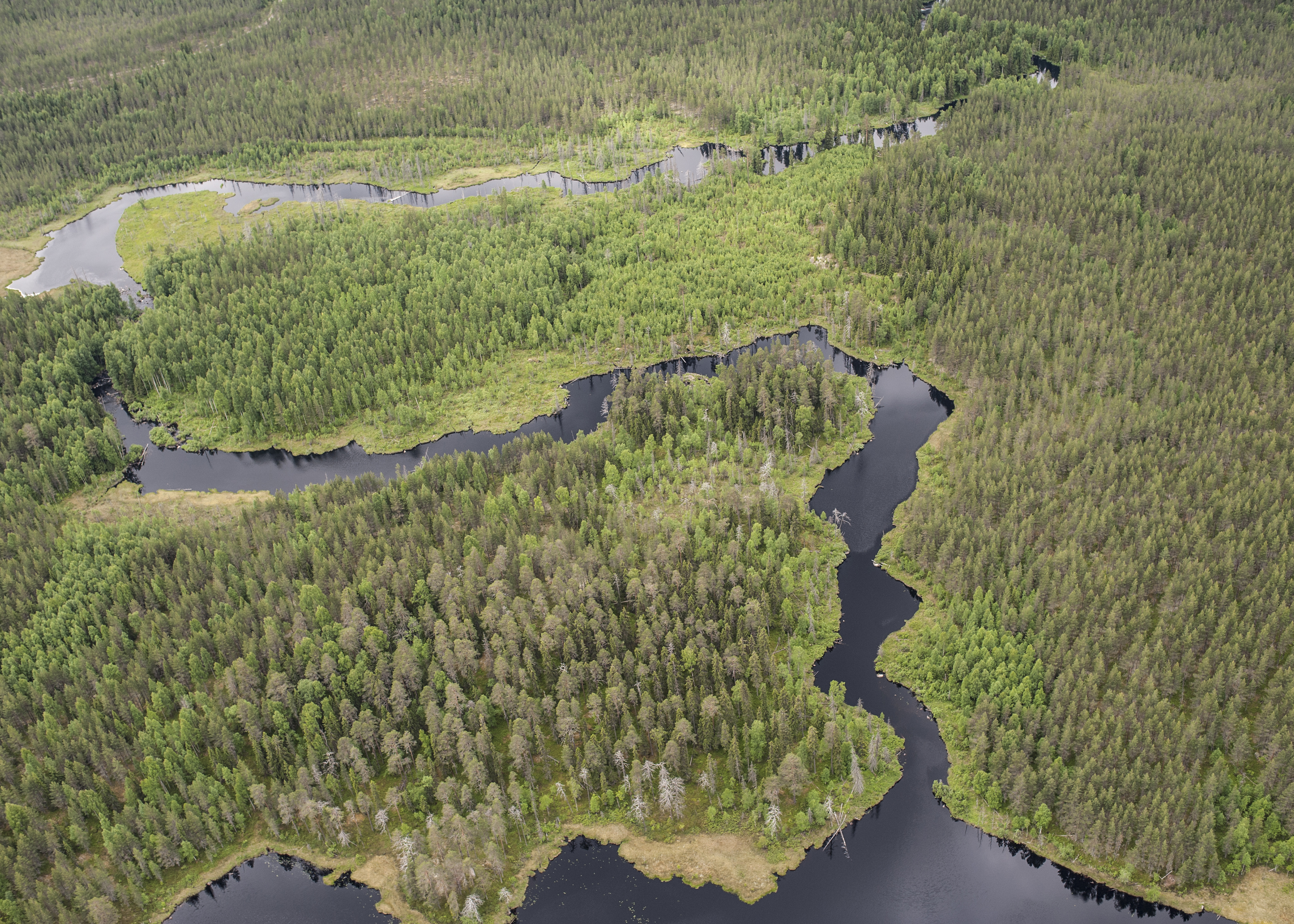 Aerial photograph of Talvivaara mine in Sotkamo, Finland. June 2013.